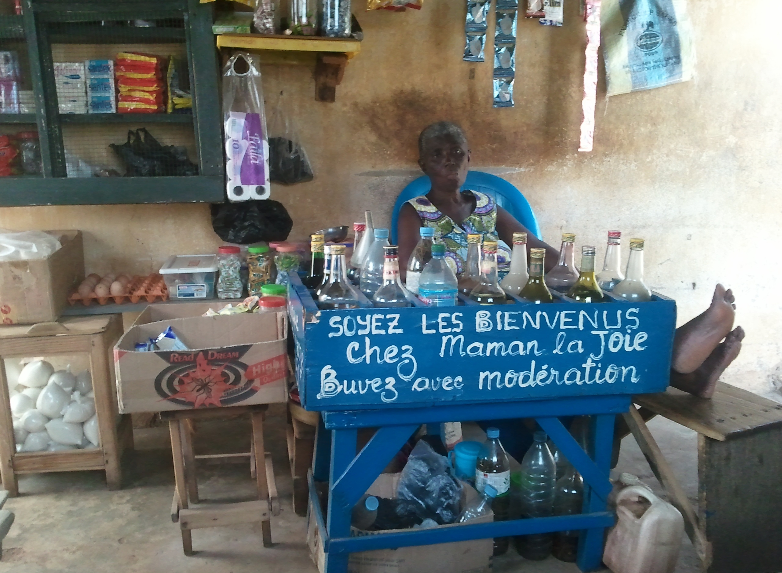 Kara, Togo This is an image of "African people at work" from Togo